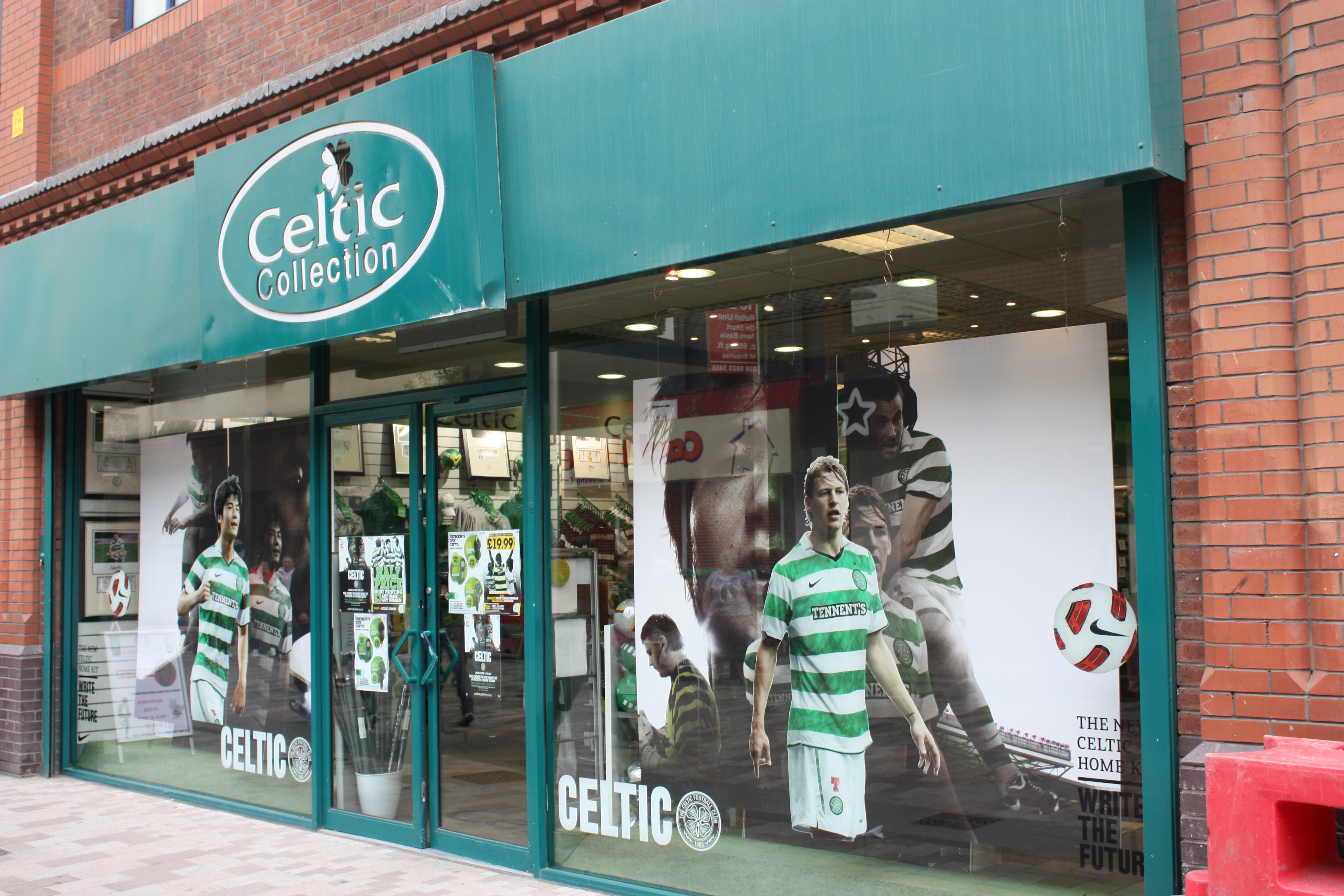 Celtic Connection, Ann Street, Belfast, Northern Ireland, June 2010